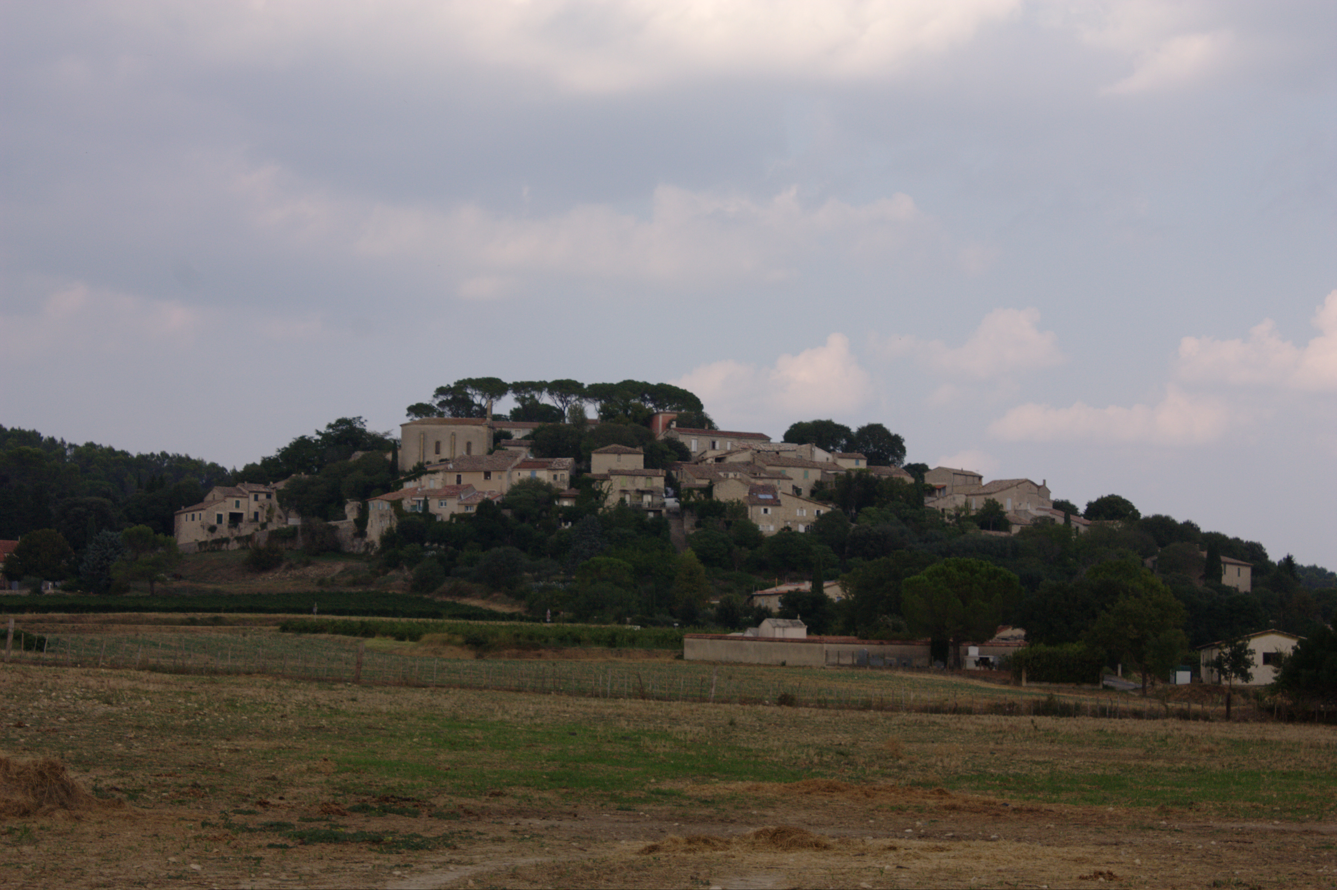 The village of Sérignac perched on it's hill.